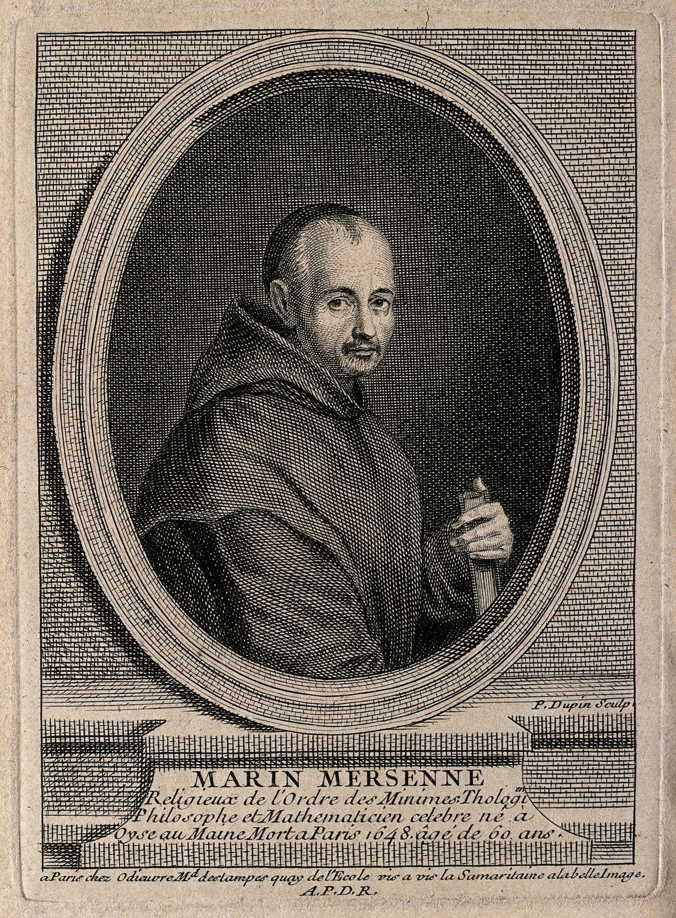 Marin Mersenne. Line engraving by P. Dupin, 1765. Iconographic Collections Keywords: portrait prints; Marin Mersenne; engravings